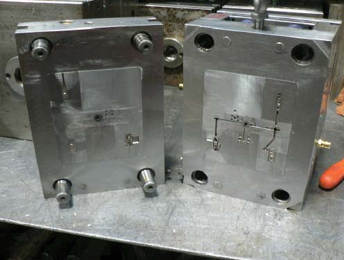 Standard two plate injection molding tool. Cavity and Core are insert in the mold base. The cavity and core are spark eroded into the shape that is required. Two plates - The two blocks you see. Five cavities - There are five cavities that will mold five different parts.